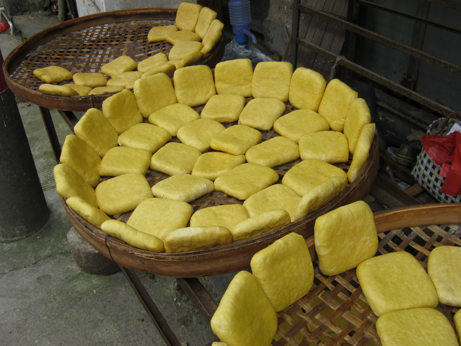 DouFu Gan, local food in ShangHang